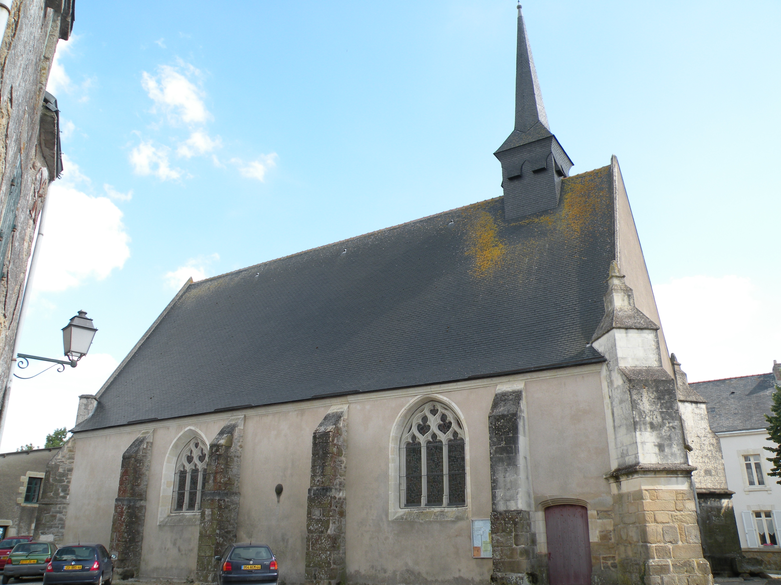 Church of Lavau-sur-Loire